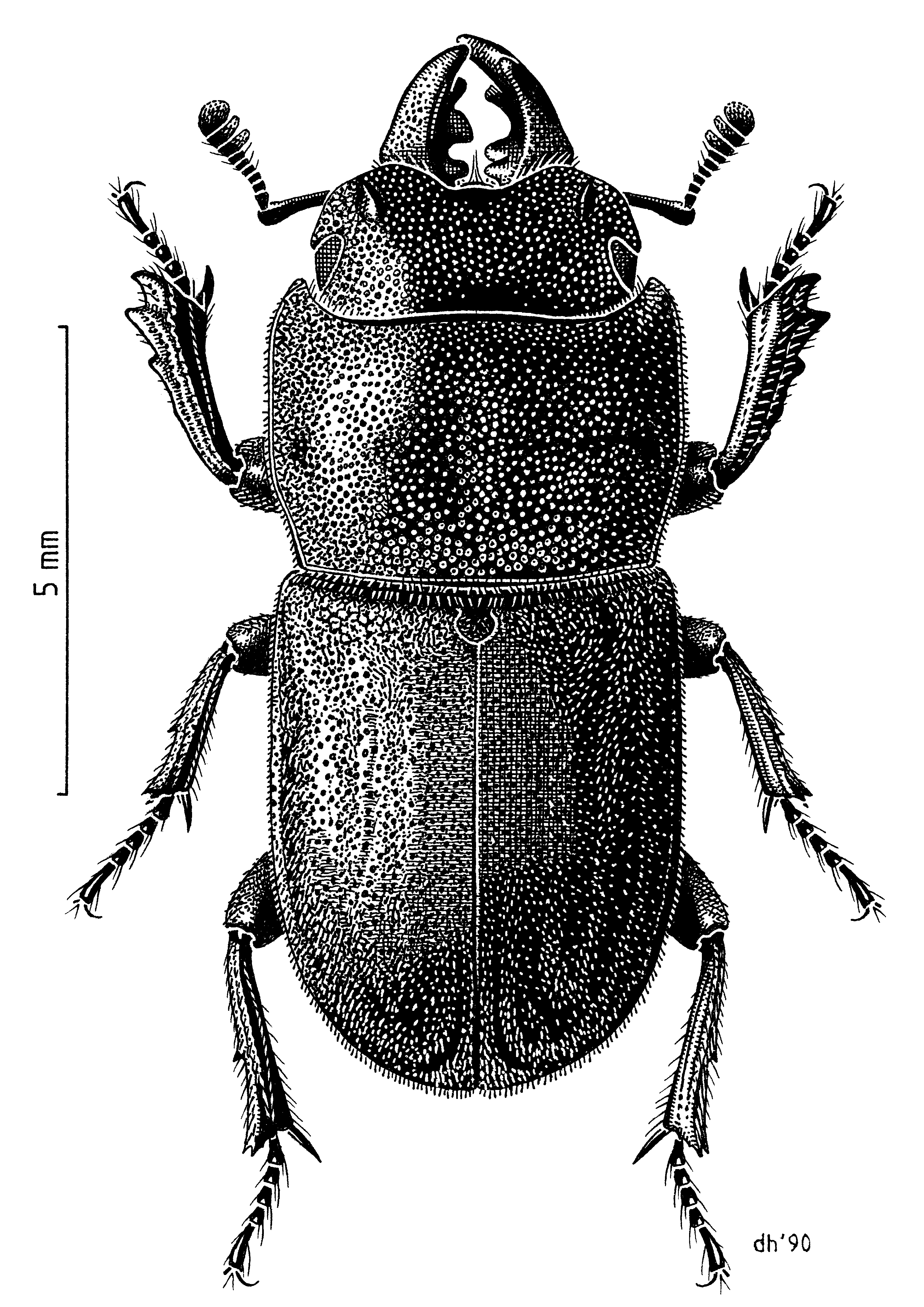 (Coleoptera: Lucanidae) Lissotes sp. illustrated by Des Helmore. [This is Paralissotes stewarti. It is fig. 87 in Holloway, B.A. 2007: Lucanidae (Insecta: Coleoptera). Fauna of New Zealand, (61) ... ThorpeStephen (talk) 00:25, 22 September 2018 (UTC)]